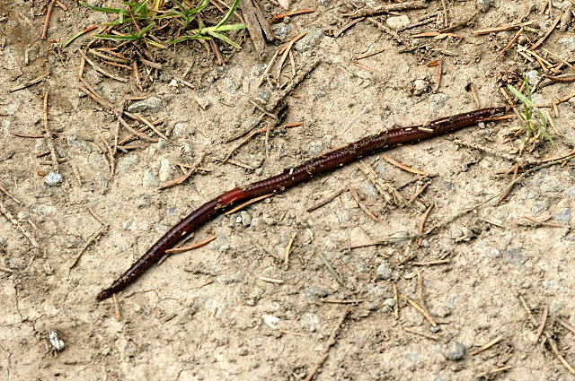 Picture taken in Commanster, Belgian High Ardennes . Species: Lumbricus rubellus